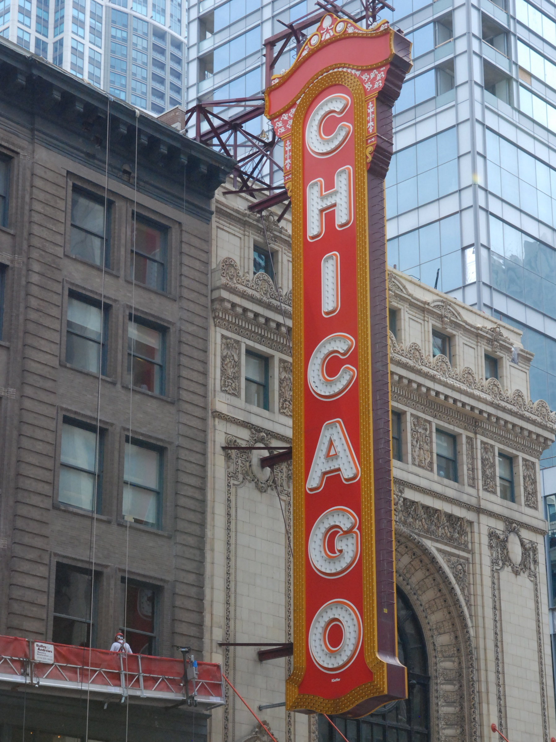 Chicago, IL